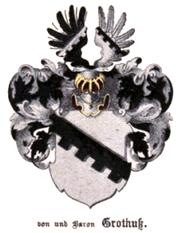 Coat of arms of Baron Grothuss family